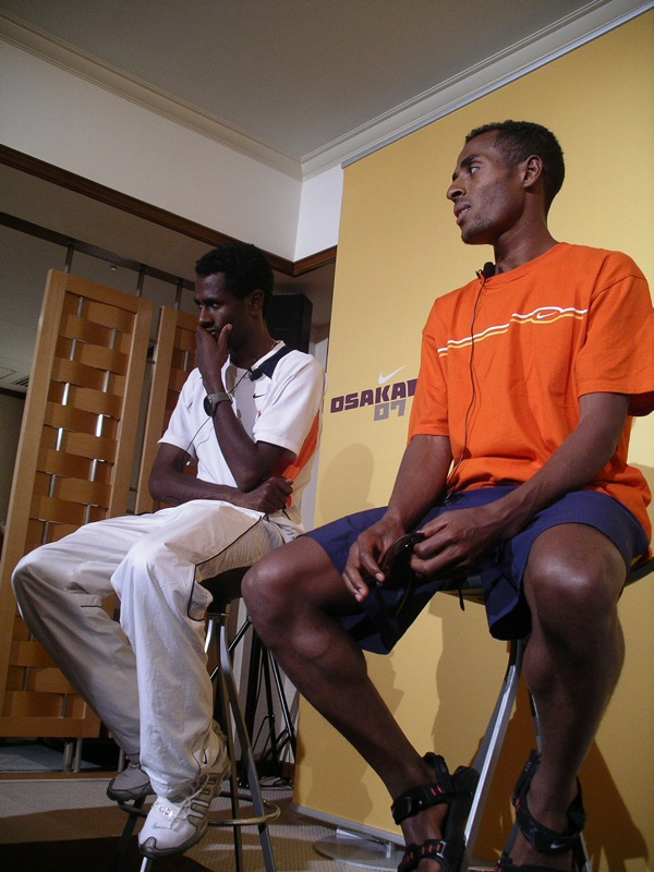 Sileshi Sihine (left) and Kenenisa Bekele (right) talk to reporters the day after finishing second and first, respectively, in the 10,000m at the 2007 World Championships in Athletics in Osaka, Japan.